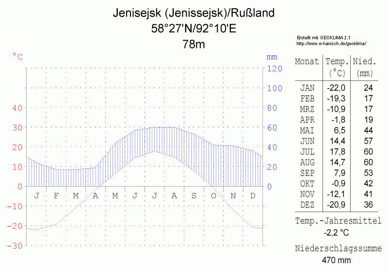 climate chart in the format by Walther and Lieth, metric, °Celsisus and millimeters, made with Geoklima 2.1